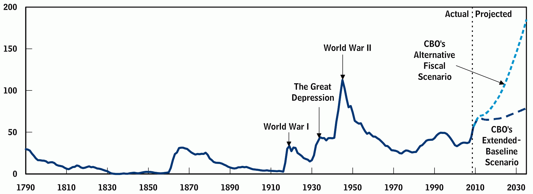 Federal debt held by the public as a percentage of GDP, historical data from 1790 to 2009, with projections until 2035. The extended-baseline scenario adheres closely to current law, following CBO’s 10-year baseline budget projections through 2020 (with adjustments for the recently enacted health care legislation) and then extending the baseline concept for the rest of the long-term projection period. The alternative fiscal scenario incorporates several changes to current law that are widely expected to occur or that would modify some provisions that might be difficult to sustain for a long period.